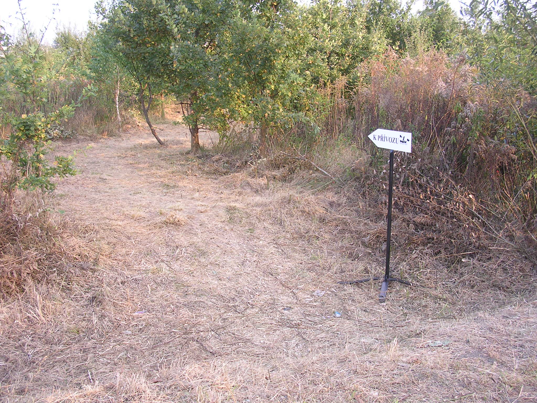 Lahovice, Prague, the Czech Republic. A trail to the ferry.